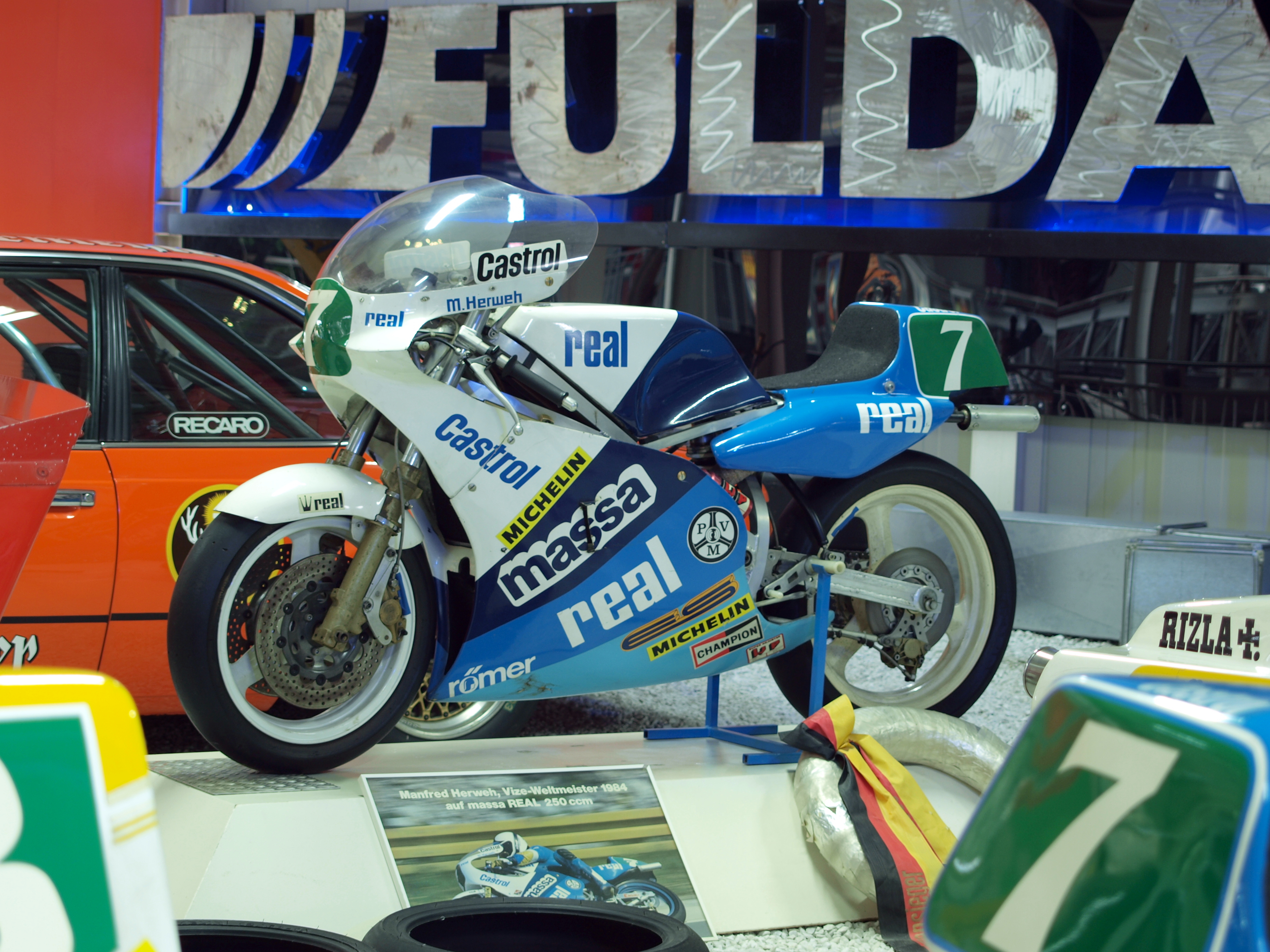 Photographed at the Auto & Technic museum Sinsheim.